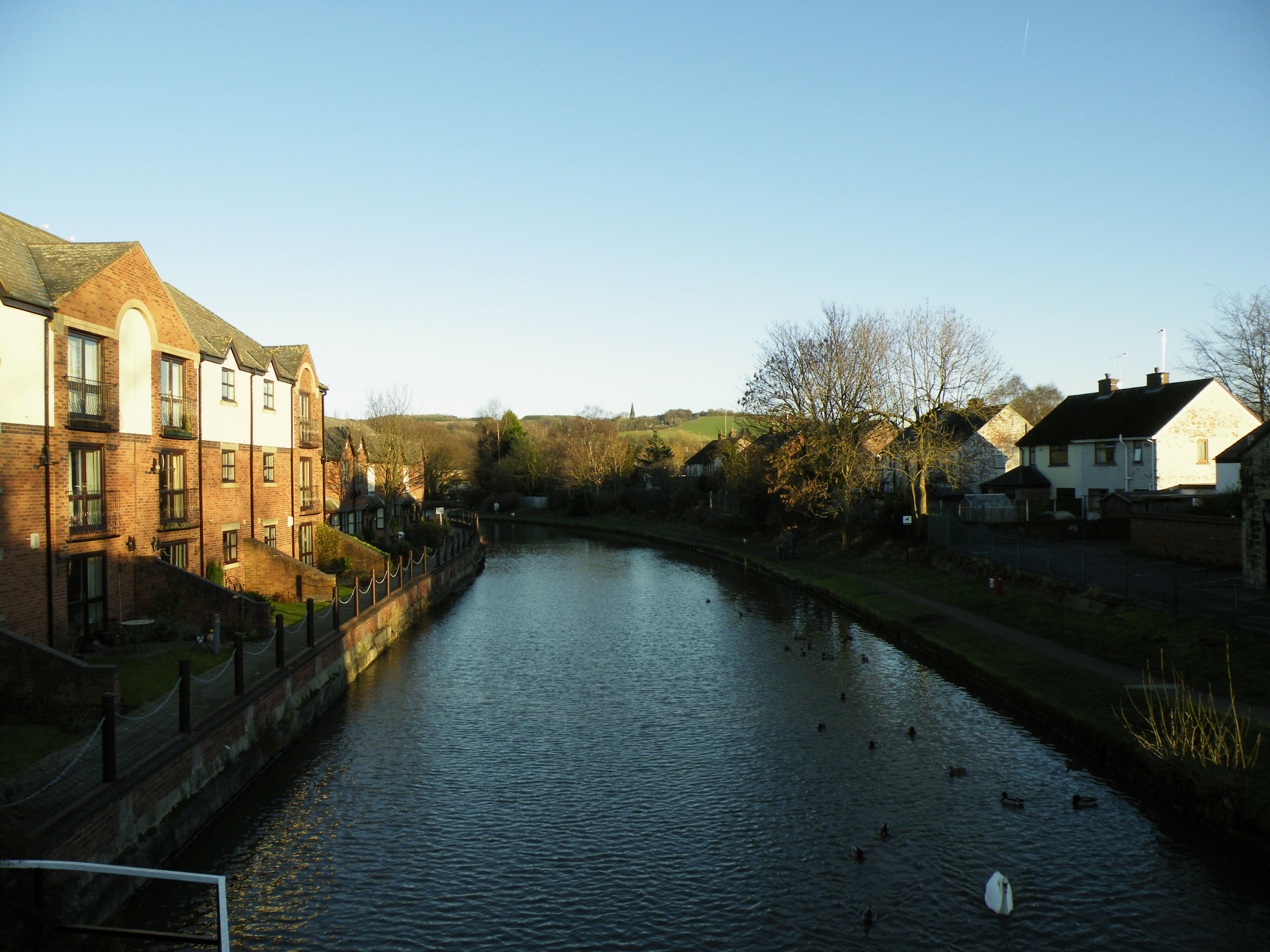 View of the Leeds-Liverpool Canal running through Parbold.